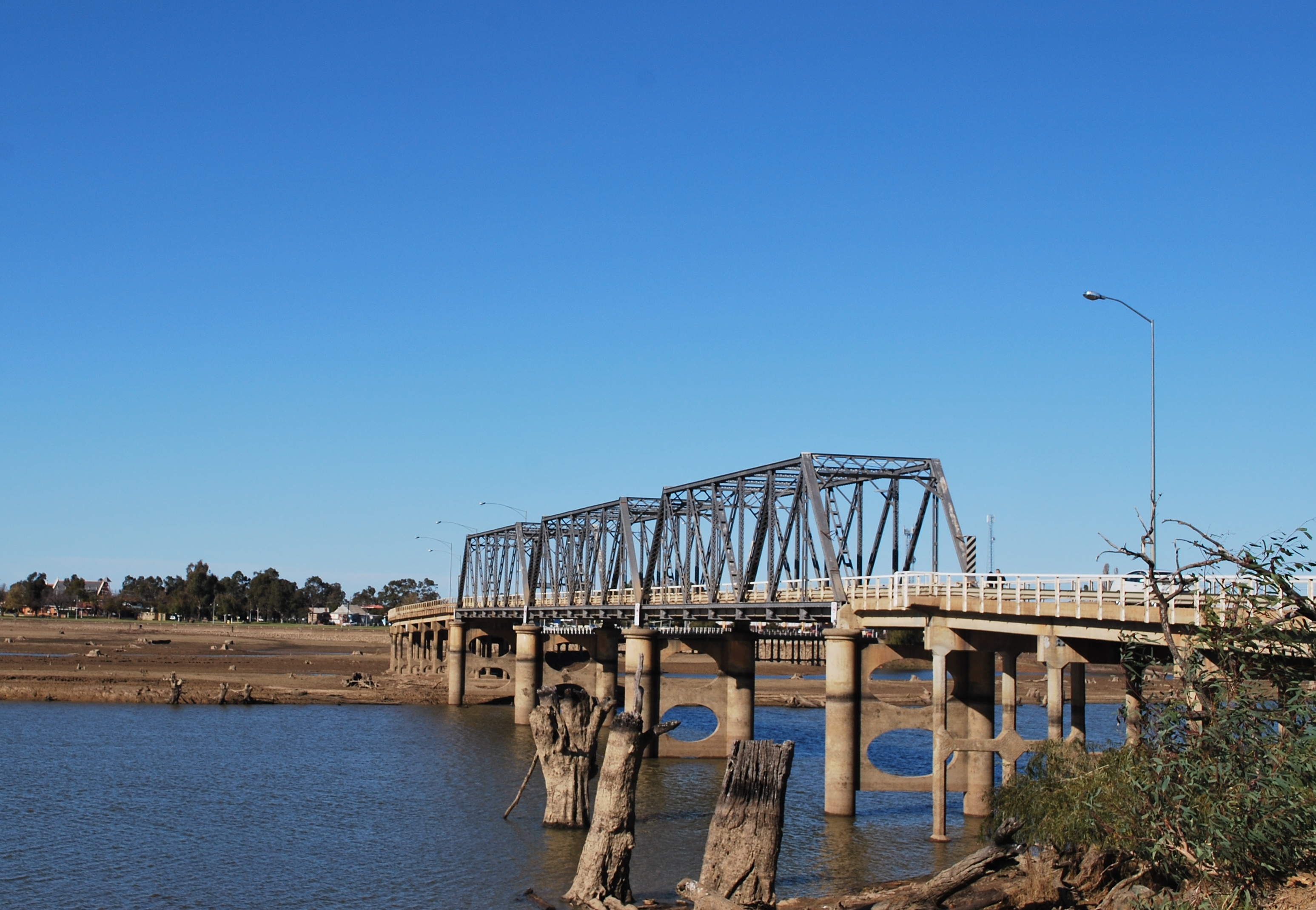 The bridge linking Yarrawonga, Victoria and Mulwala, New South Wales over an empty Lake Mulwala. The lake was empty to control a water weed. The town of Yarrawonga can be seen on the far side of the empty lake and the original path of the Murray River is clearly visible.